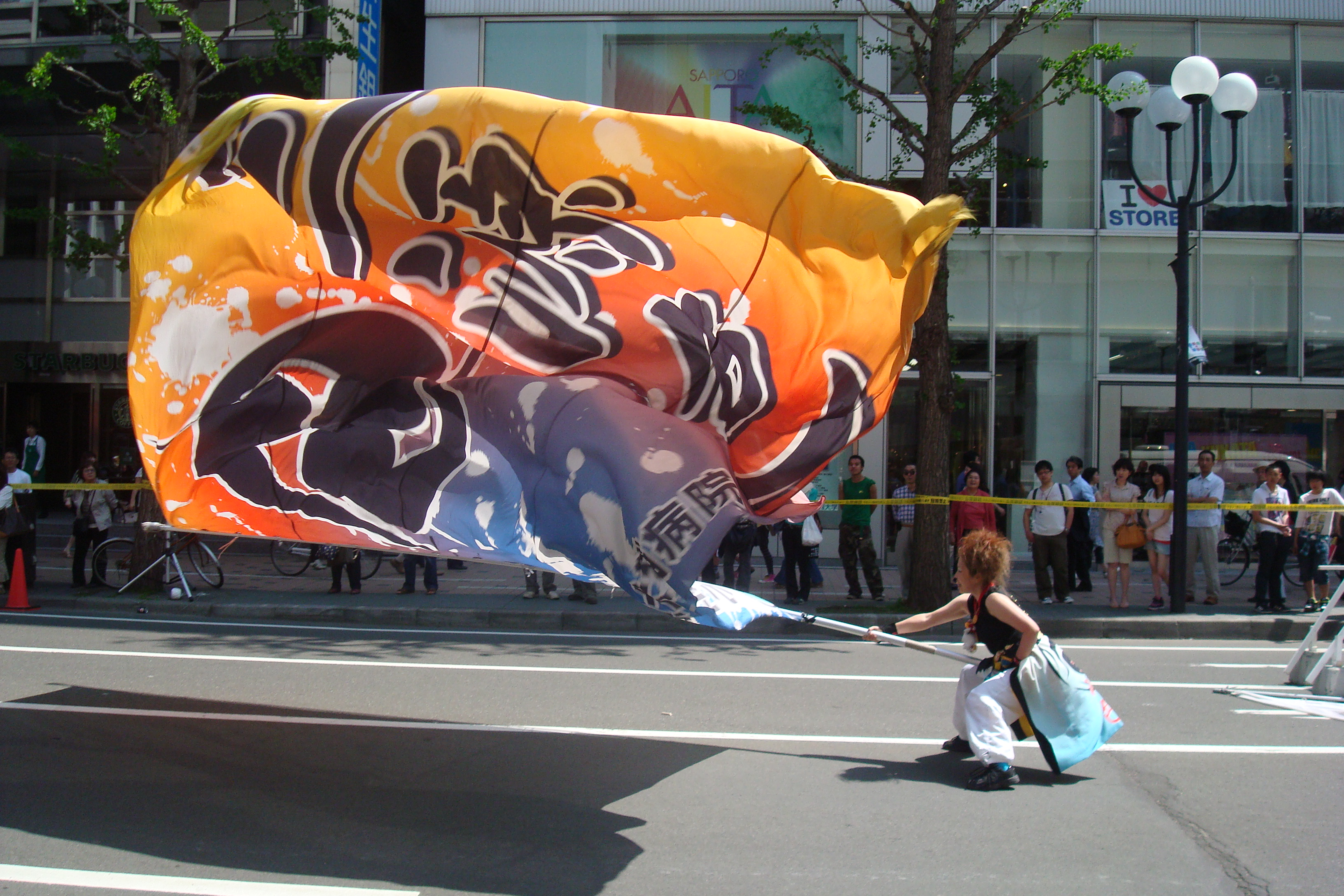 YOSAKOI Soran Festival in 2010